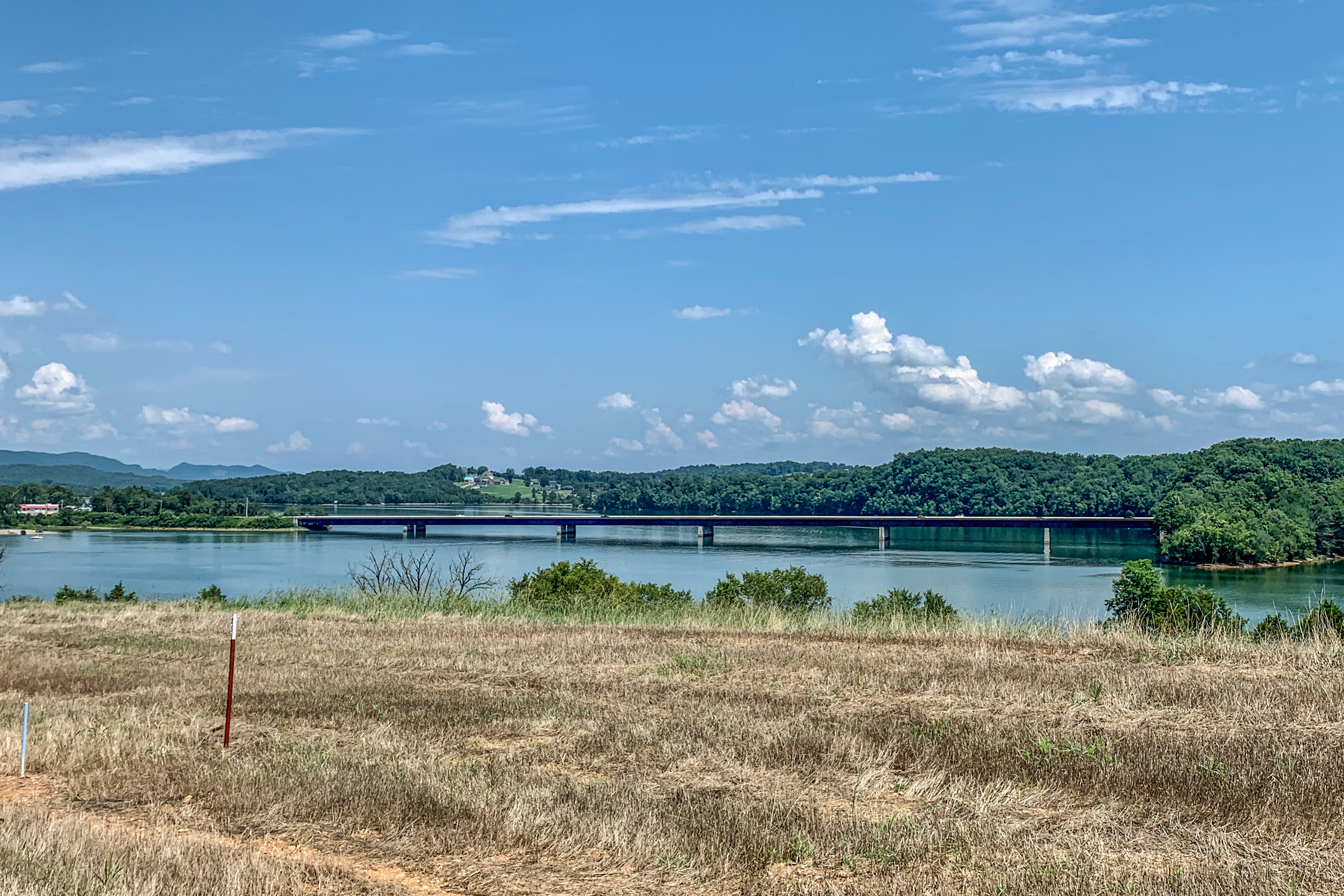 The Olen R. Marshall bridge connecting the municipalities of Morristown and Bean Station across Cherokee Lake/Holston River via US-25E/SR-32 in Tennessee